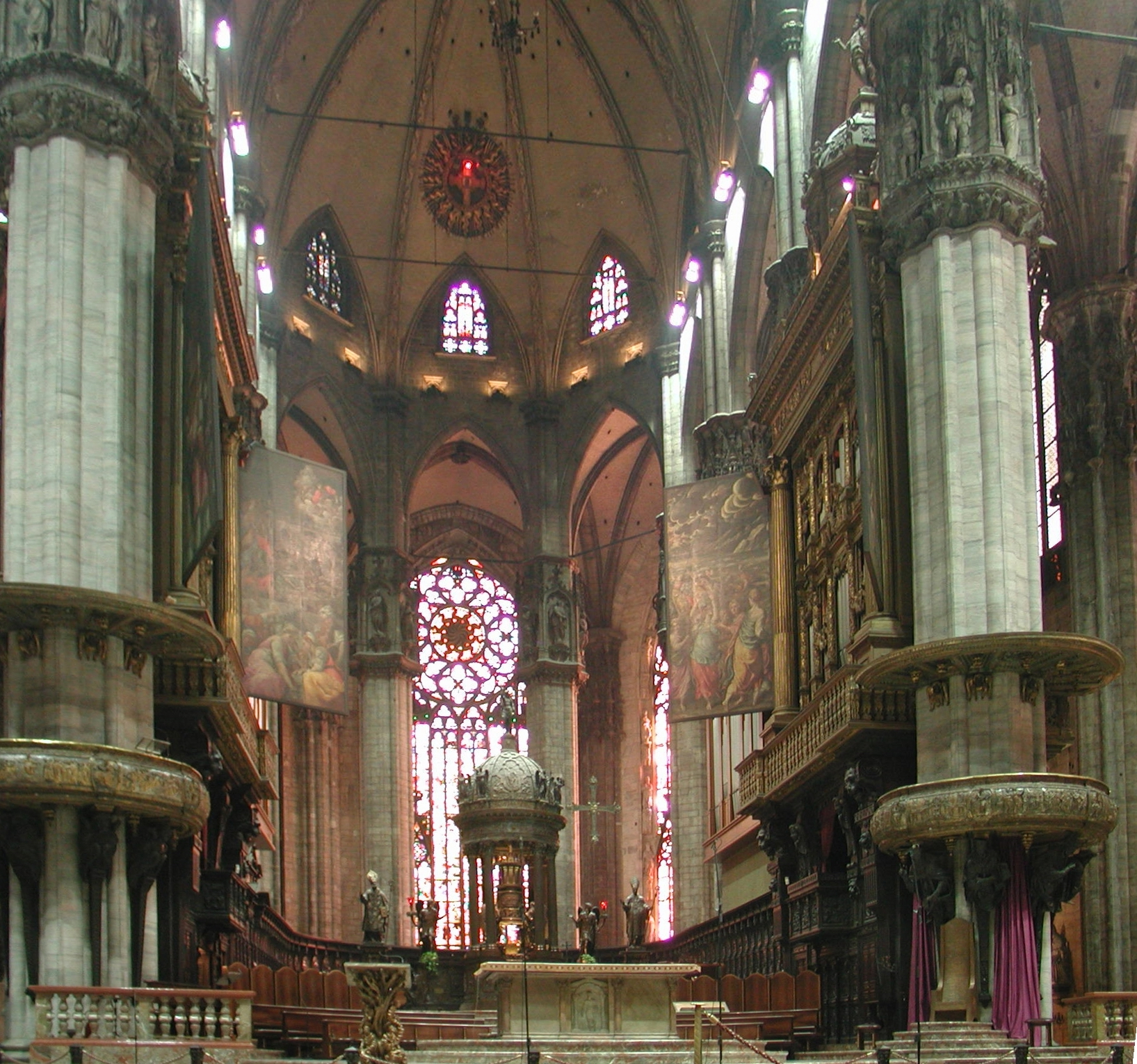 Inside the Duomo (Cathedral) in Milan.